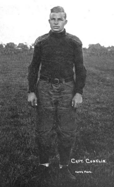 Photograph of Frederick L. Conklin, '12 M, Left End, Schoolcraft, Mich., Captain of 1911 Football Team